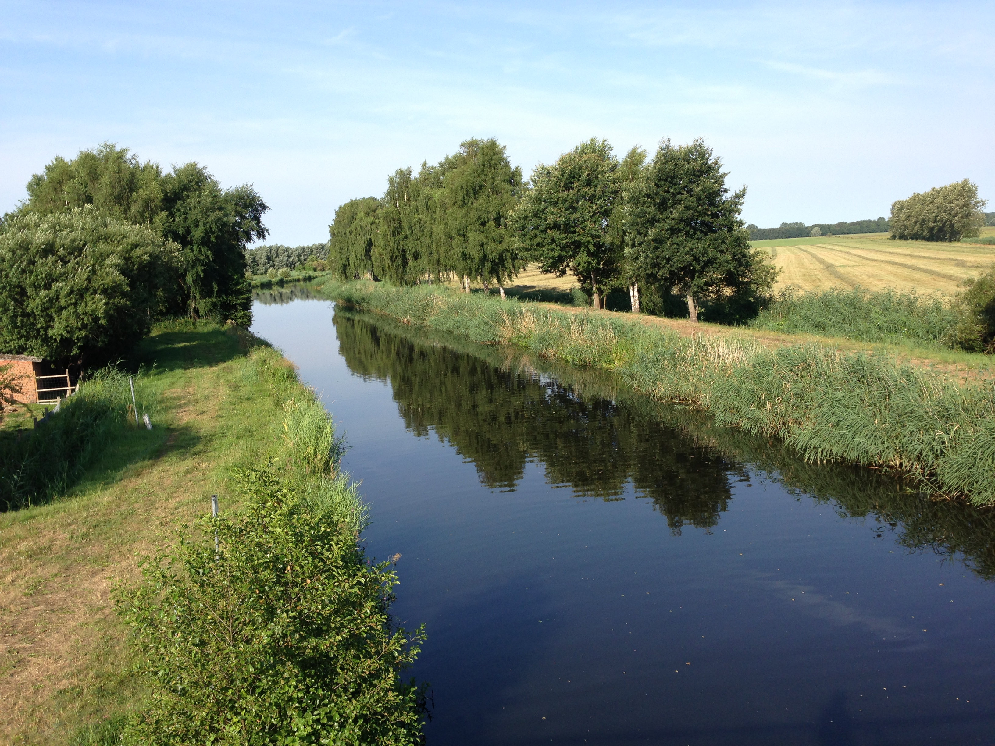 Müritz-Elde-Wasserstraße/Elde-Seitenkanal in Neu Göhren, district Ludwigslust-Parchim, Mecklenburg-Vorpommern, Germany